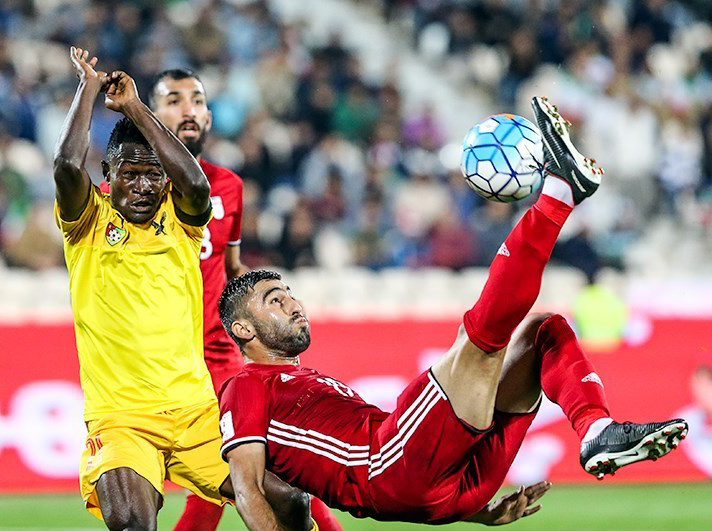 Kaveh Rezaei playing against Togo in 2017